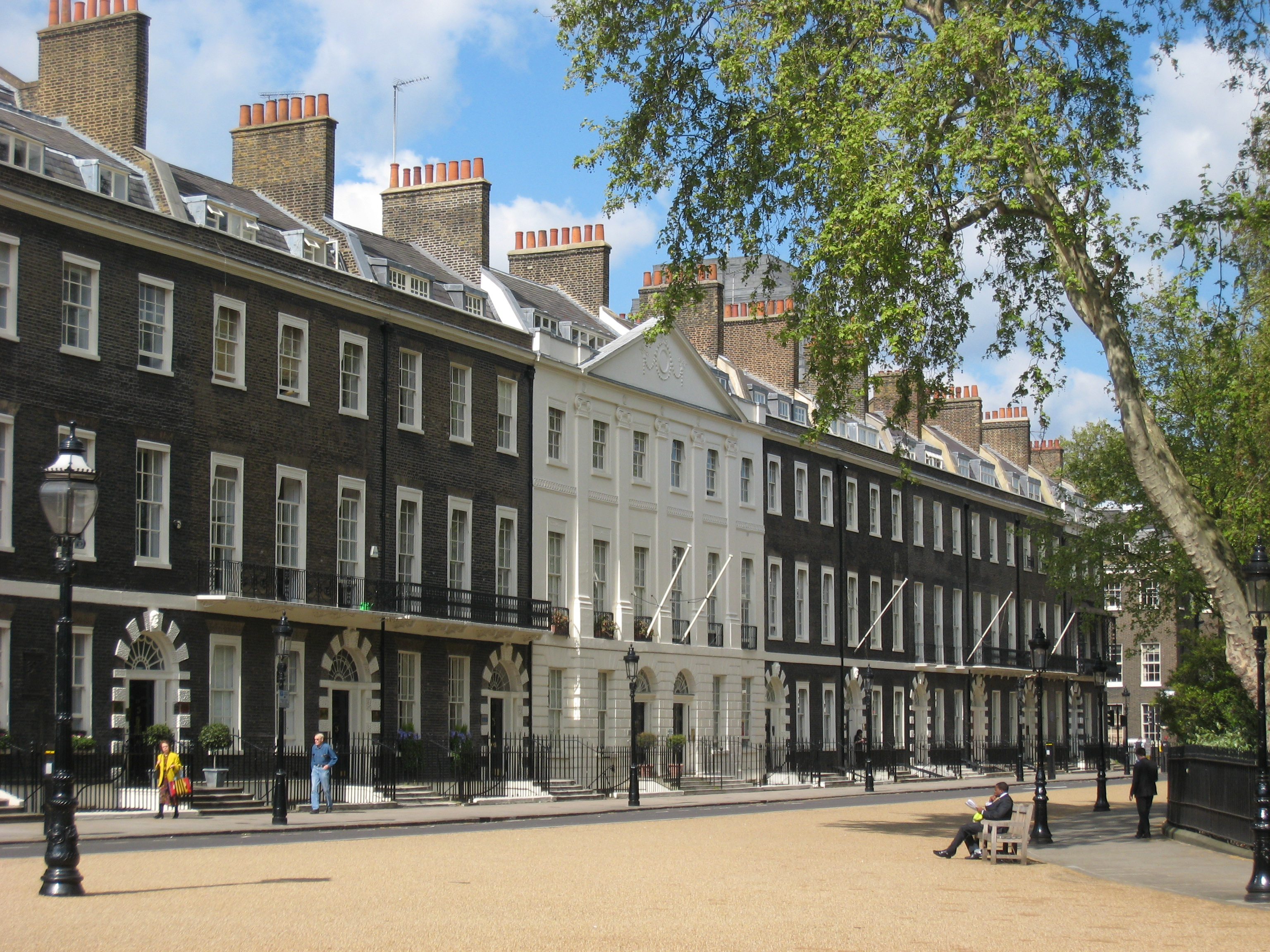 Architectural Association, premises at 34-36 Bedford Square (W side)